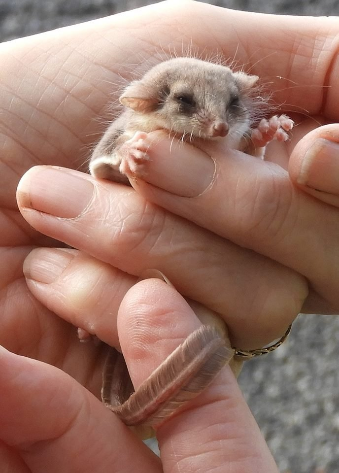 Feathertail glider, Acrobates pygmaeus (Tony Rees photograph)